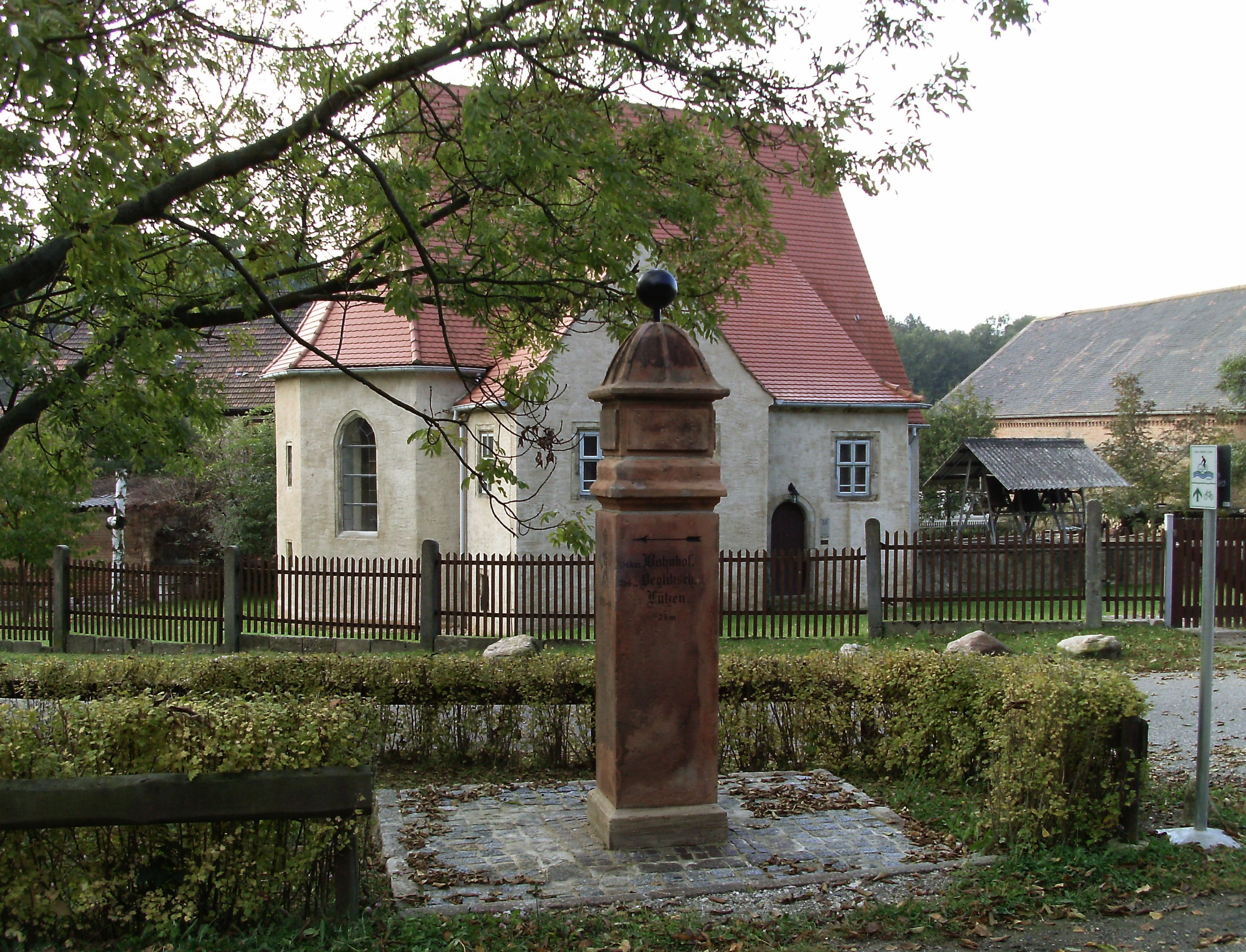 St. Mary's Church an historic signpost in Deuben/Saale (Lützen, district of Burgenlandkreis, Saxony-Anhalt)